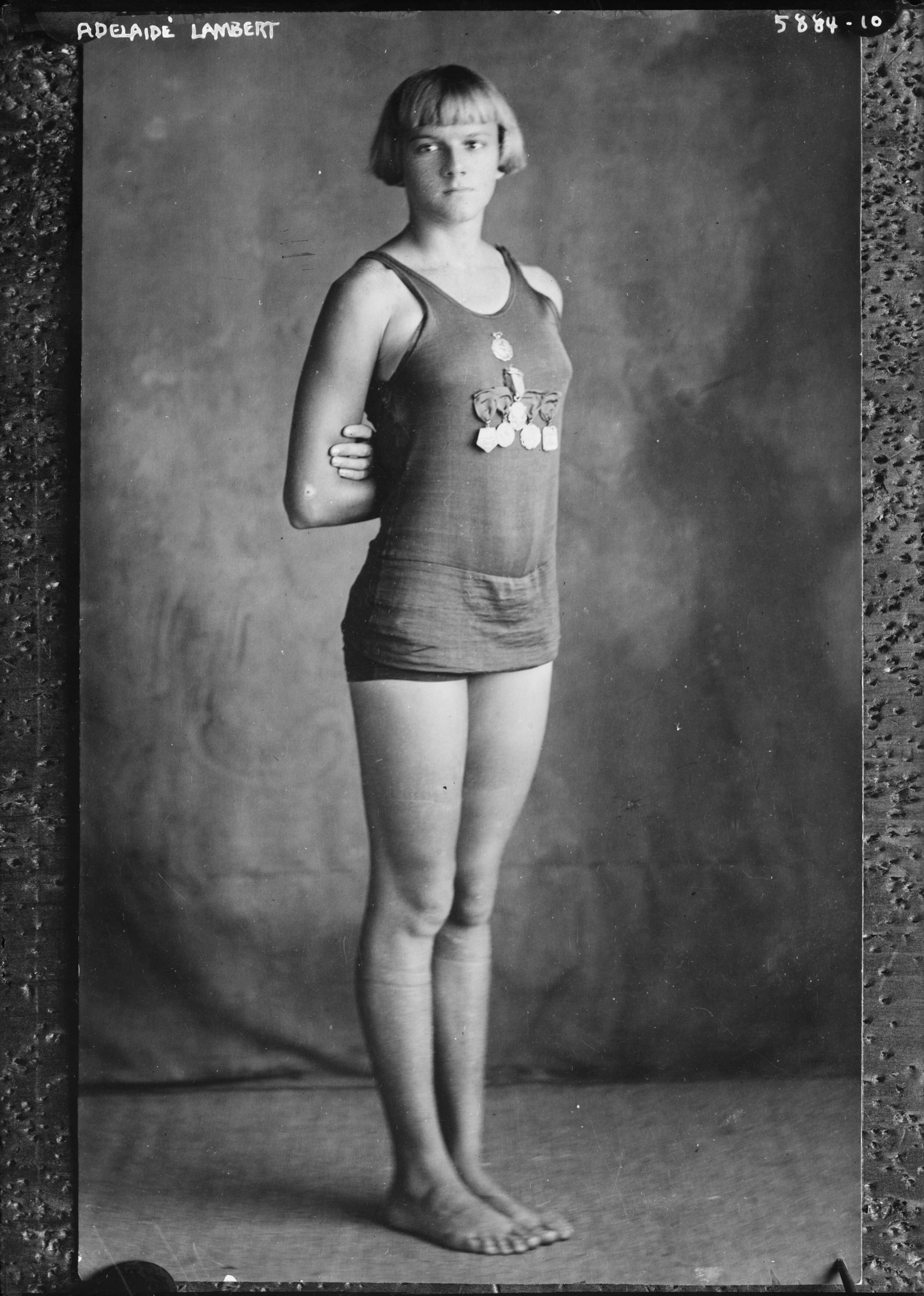 Title: Adelaide T. Lambert (1907–1996) [in swimsuit] circa 1920 Abstract/medium: 1 negative : glass ; 5 x 7 in. or smaller.